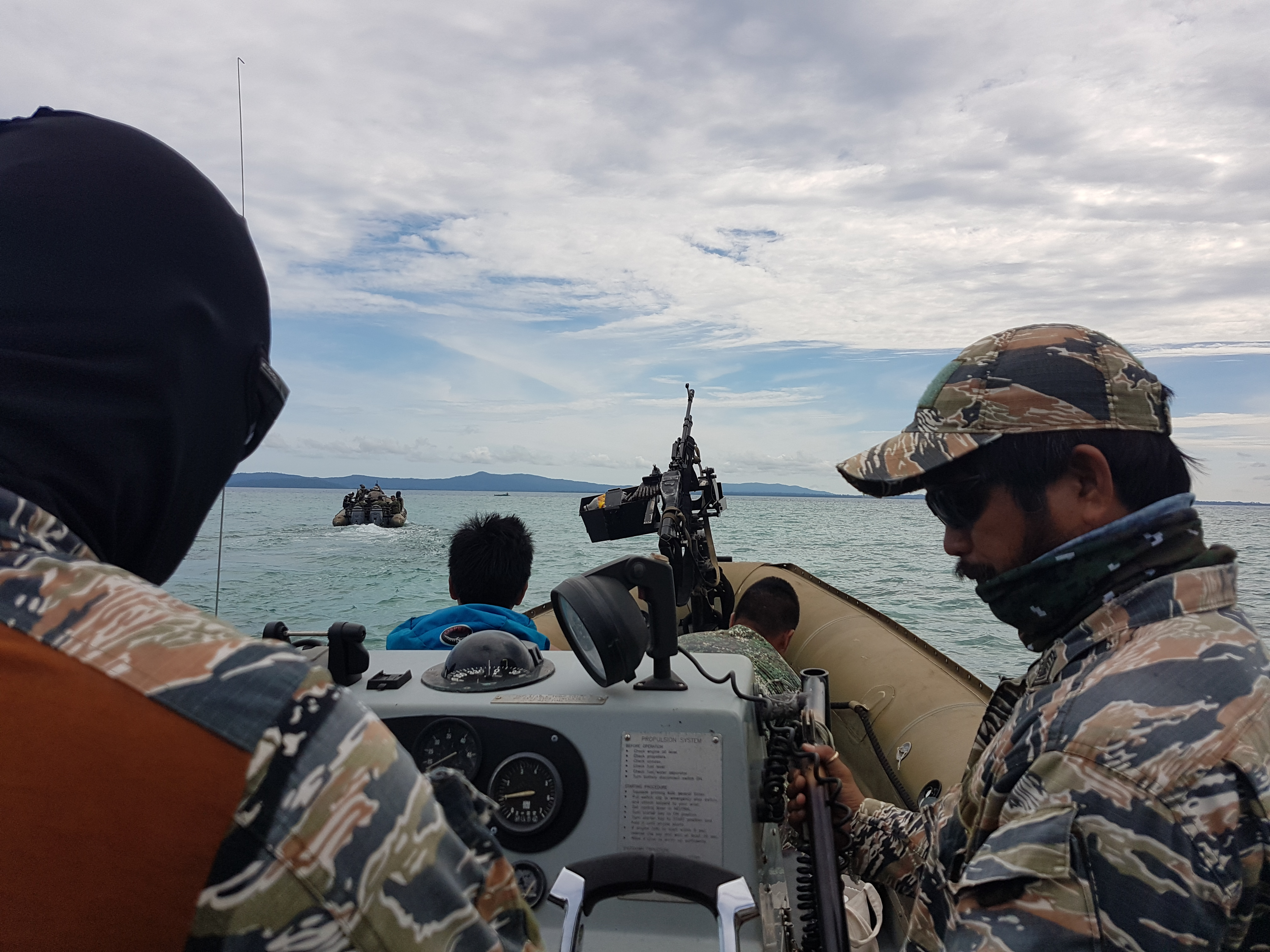 The Philippine Naval Special Operations Group deployed in the waters of Celebes Sea for a reconnaissance, deployment-extraction and mapping operations with Schadow1 Expeditions.